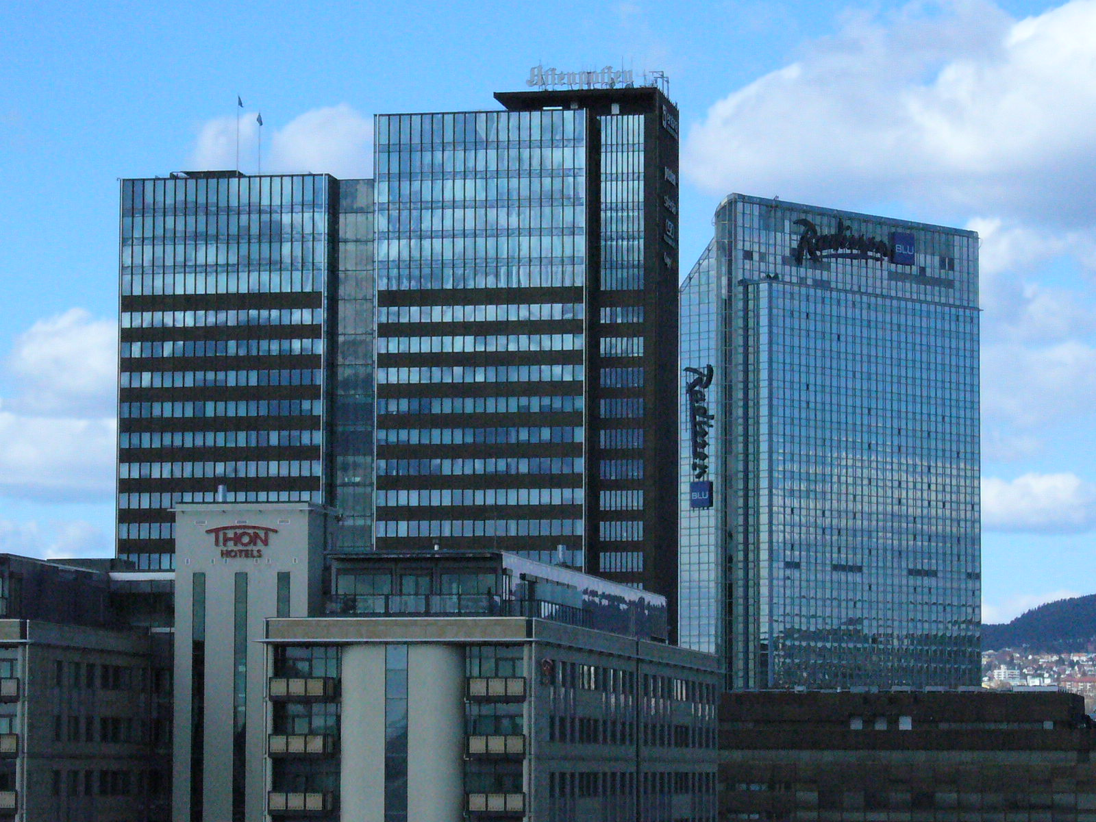 Skyscrapers of Oslo